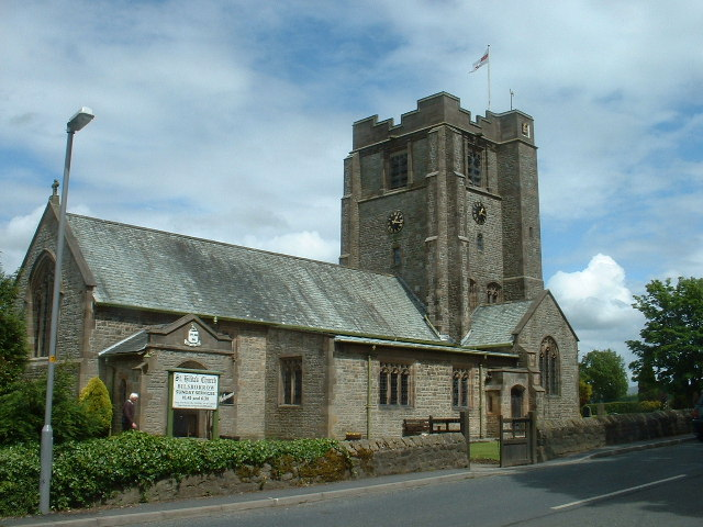 St Hilda's Church, Bilsborrow. It seems Bilsborrow used to be called Duncombe, and is shown as that on the 1940s OS Map.